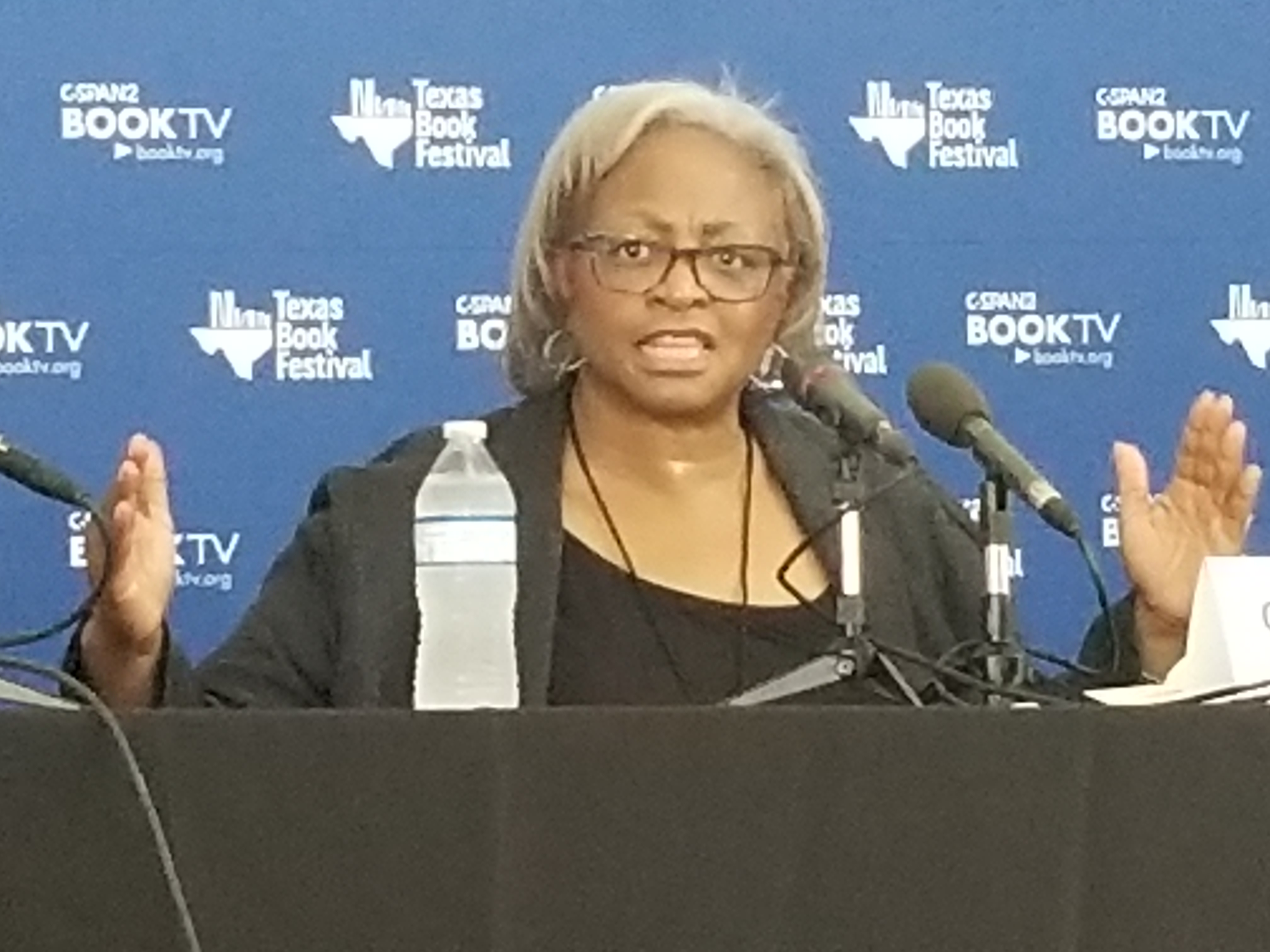 Carol Anderson at the Texas Book Festival on November 5th, 2017